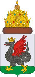 Kazan (Tatarstan), coat of arms (2004)